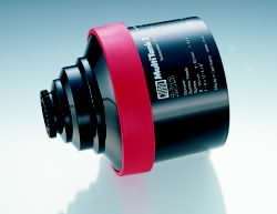 Jobo processing tank